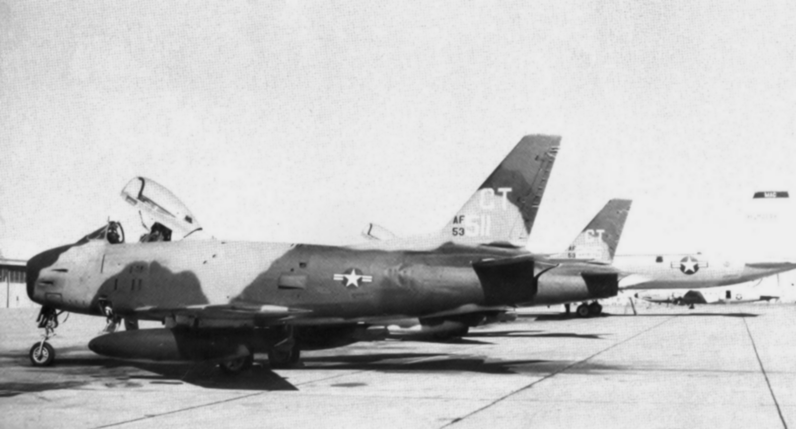 U.S. Air Force 104th Tactical Fighter Squadron North American F-86H Sabres during the 1968 Pueblo Crisis at Cannon Air Force Base, New Mexico (USA), painted in Southeast Asian camouflage. F-86H-10-NH Sabre 53-1511 is in the foreground, the tail of 53-1255 is also shown. 53-1511 is now on display at the Museum of Aviation, Robins AFB, Georgia (USA). Note: The tail code "CT" did not yet identify the Connecticut Air National Guard, but, in this case, a squadron assigned to Cannon AFB where the 27th Tactical Fighter Wing was stationed.